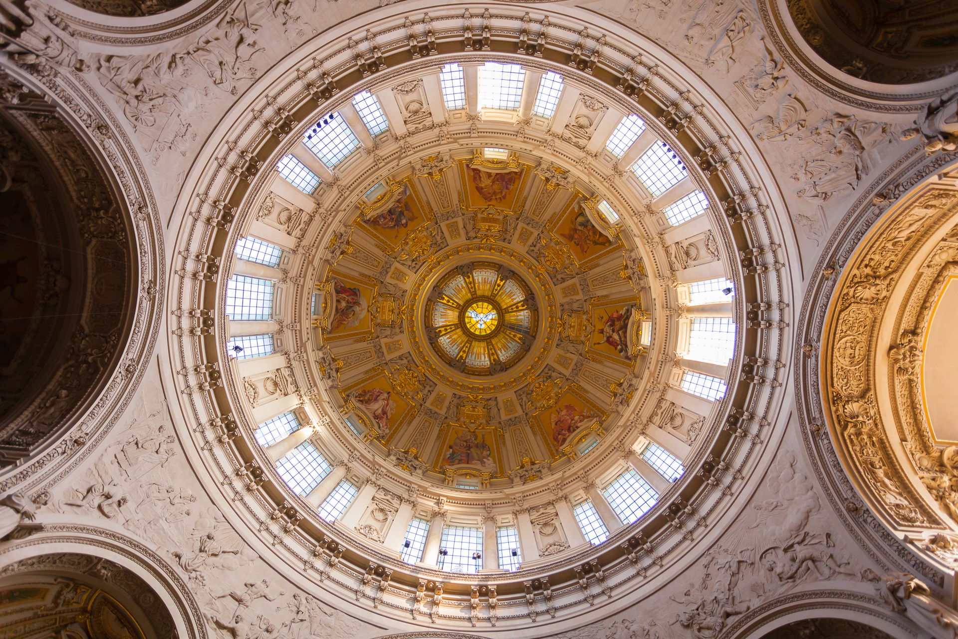 Berlin Cathedral Church - Berliner Dom, Germany